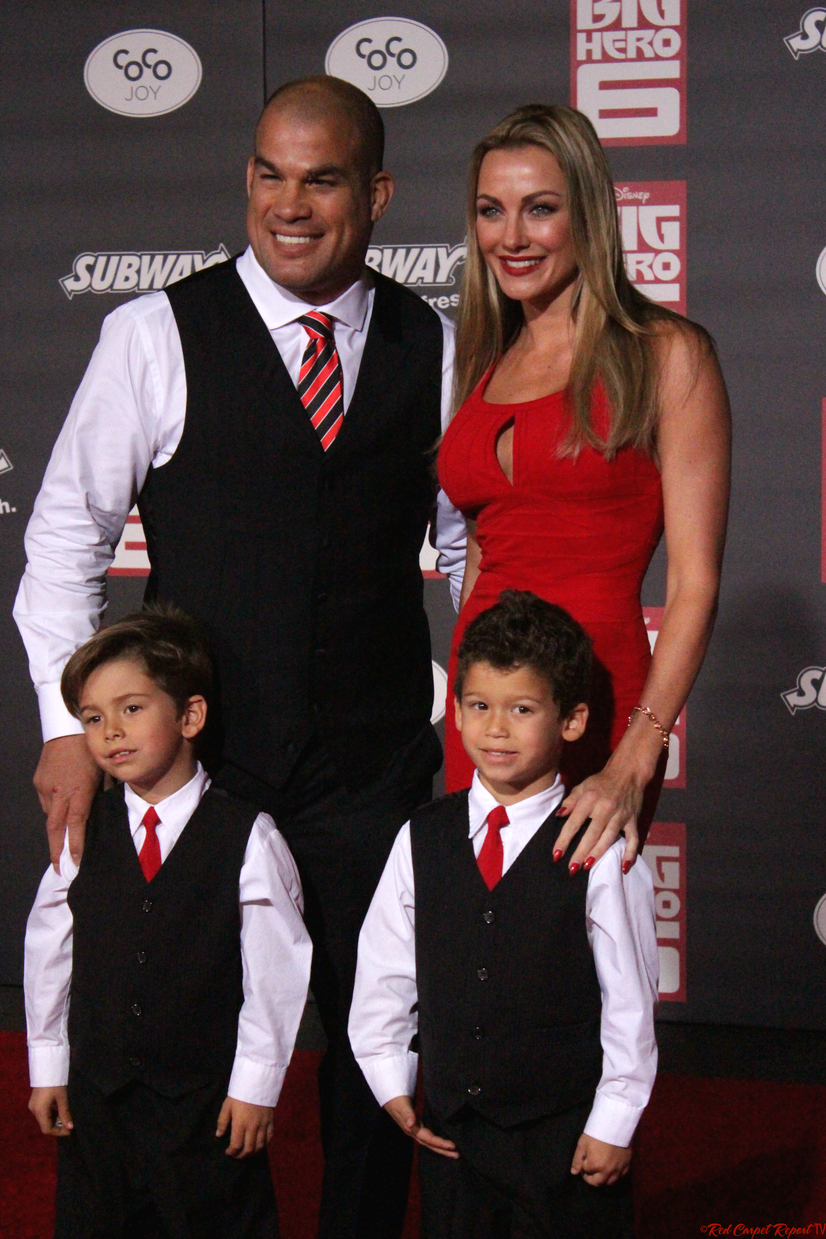 Tito Ortiz at the the LA Premiere of Disney's Big Hero 6 at the El Capitan Theatre in Hollywood on November 4, 2014